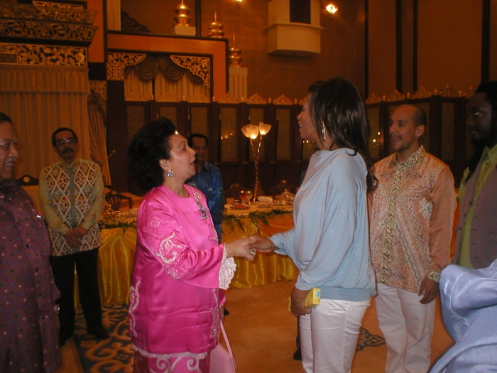 Jody Watley at Royal Palace in Malaysia greeting Queen Tuanku Fauziah at Tea Ceremony March 19, 2005, as a part of the Force of Nature Tsunami Aid Relief Event.